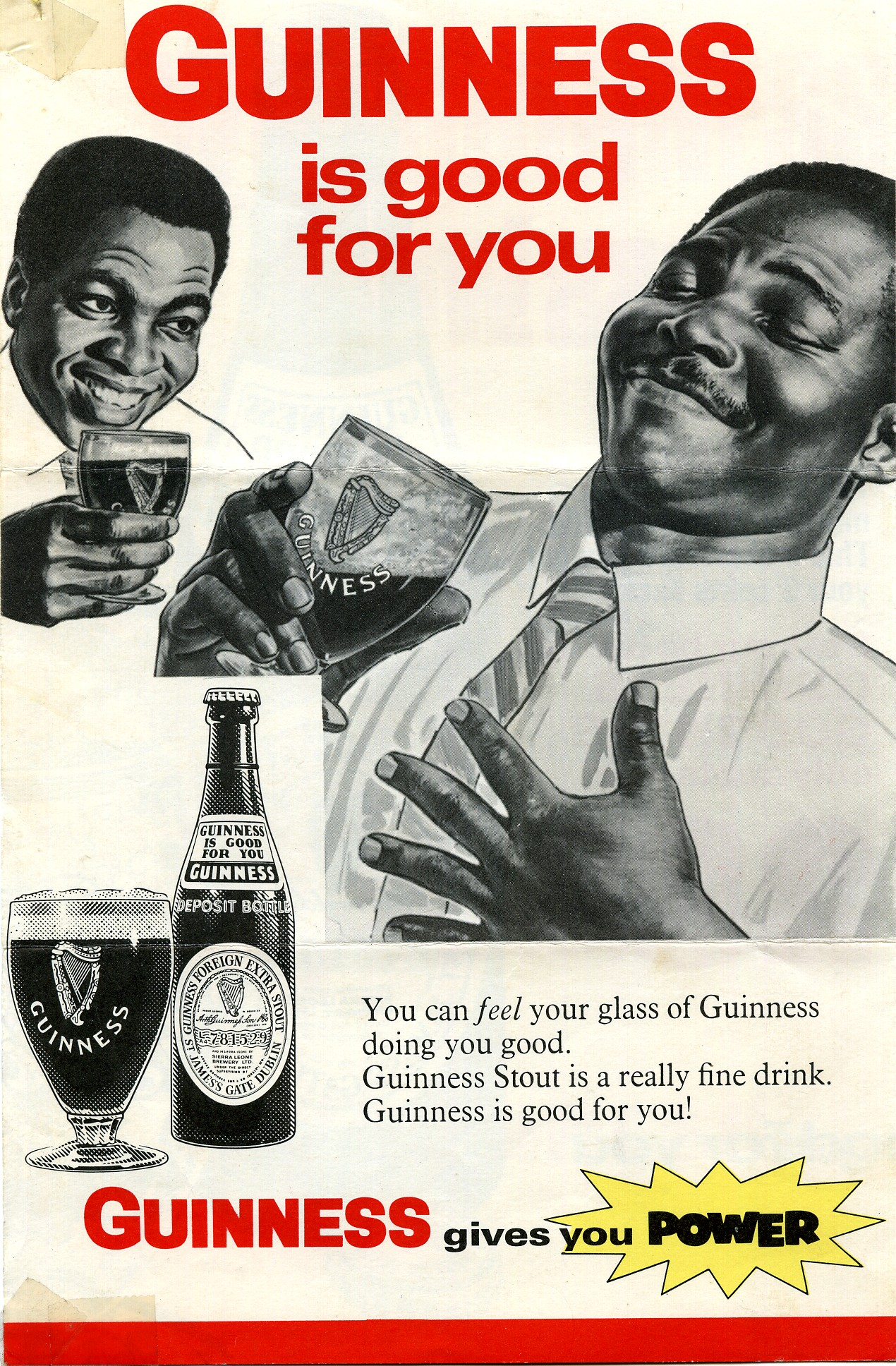 The price was 28 cents plus 3 cents deposit, which was cheaper than the imported Guinness.